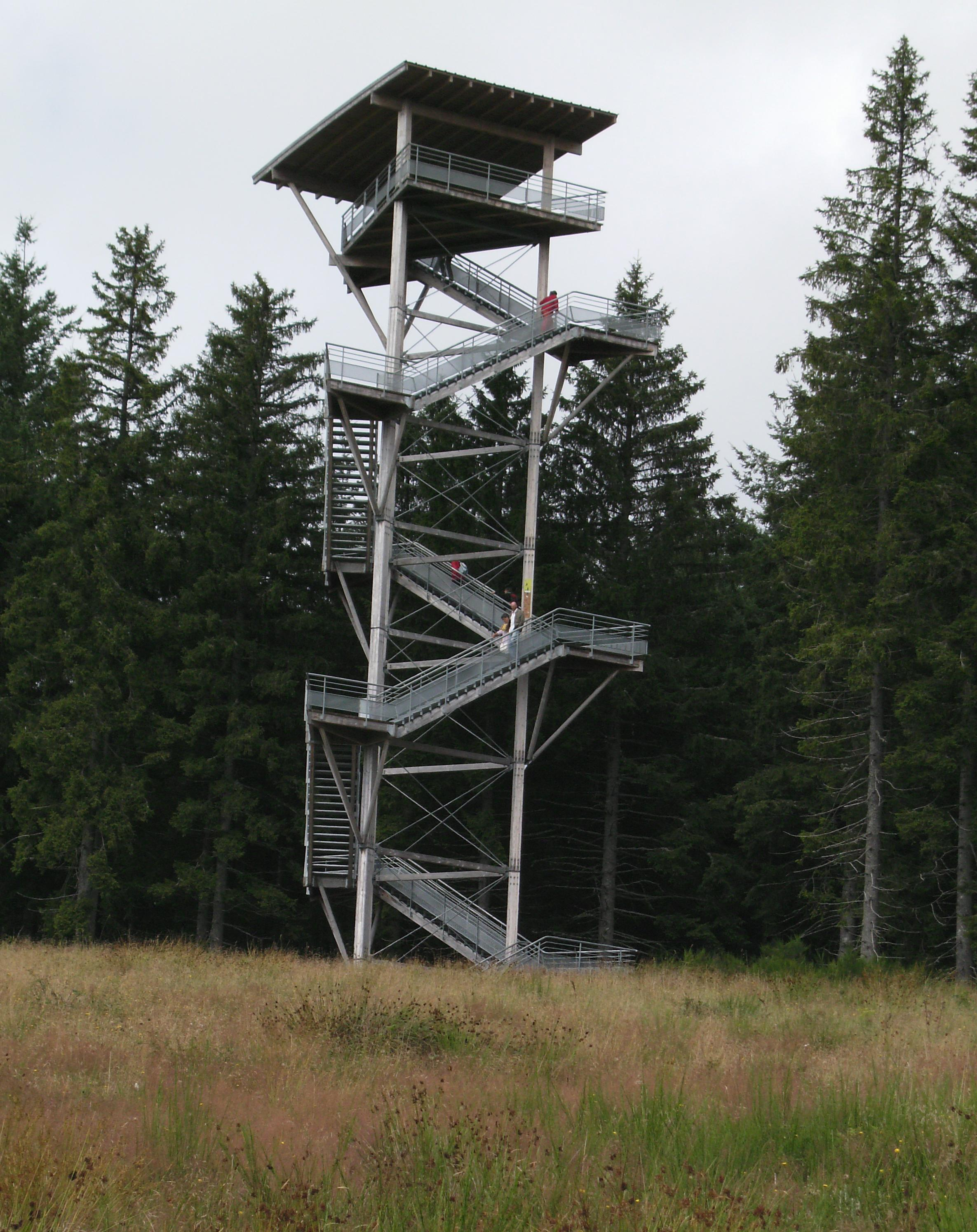 The iconic Mont Bessou viewing tower on the edge of the Milevaches Plateau, close to Meymac, Limousin, France